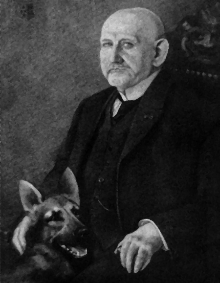 Max von Stephanitz